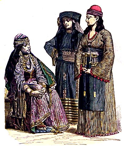 Woman from Damascus, Muslim woman from Mecca, and Fellah woman from Damascus. Late nineteenth century.